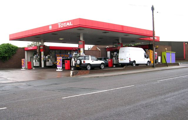 Total Filling Station - Castleford Road